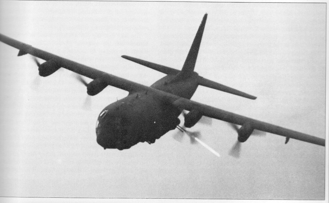 From Bernard C. Nalty, "The War Against Trucks: Aerial Interdiction in Southern Laos, 1968-1972." Washington DC: Air Force Museums and History Program, 2005.